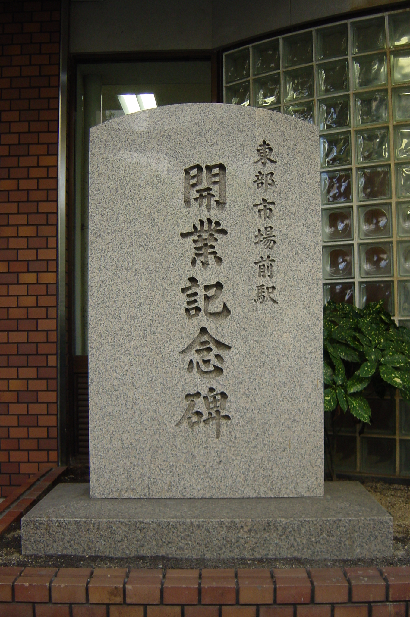 Kumata toubusijoumae eki kaigyoukinenhi